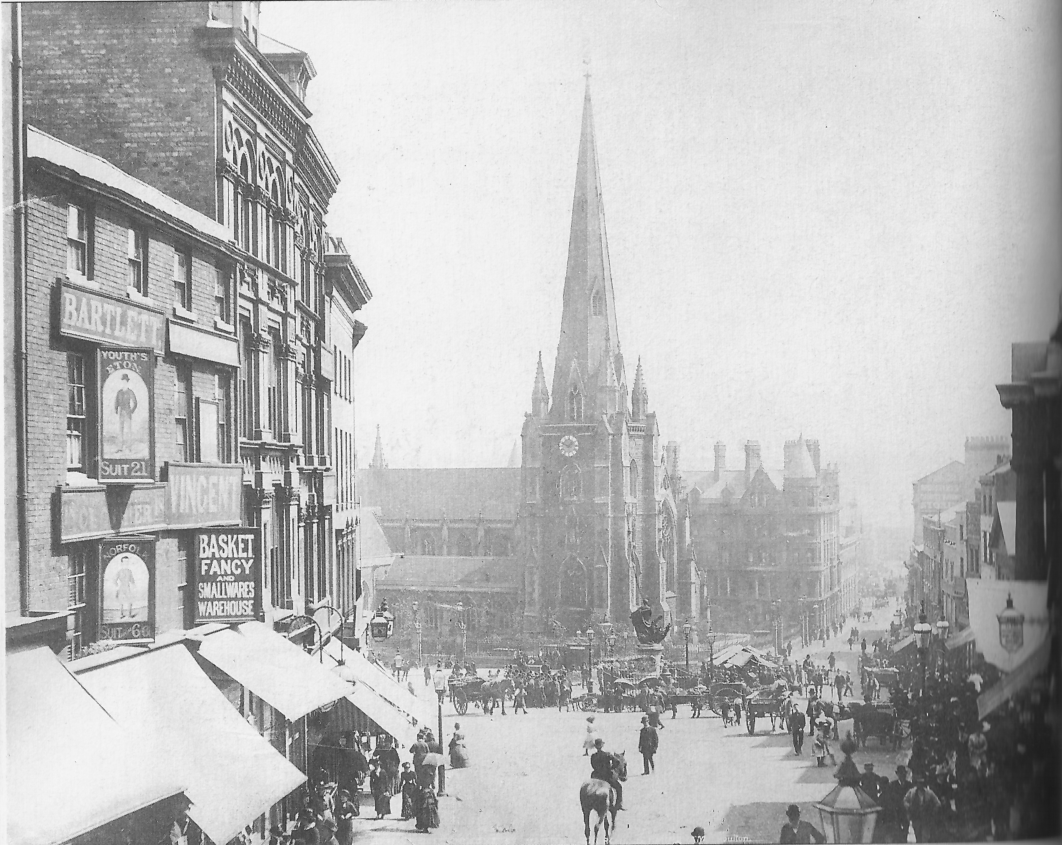 The old centre of Birmingham in the 1880's: the Bull Ring and the parish church of St Martin's as viewed from the southern end of the High Street.